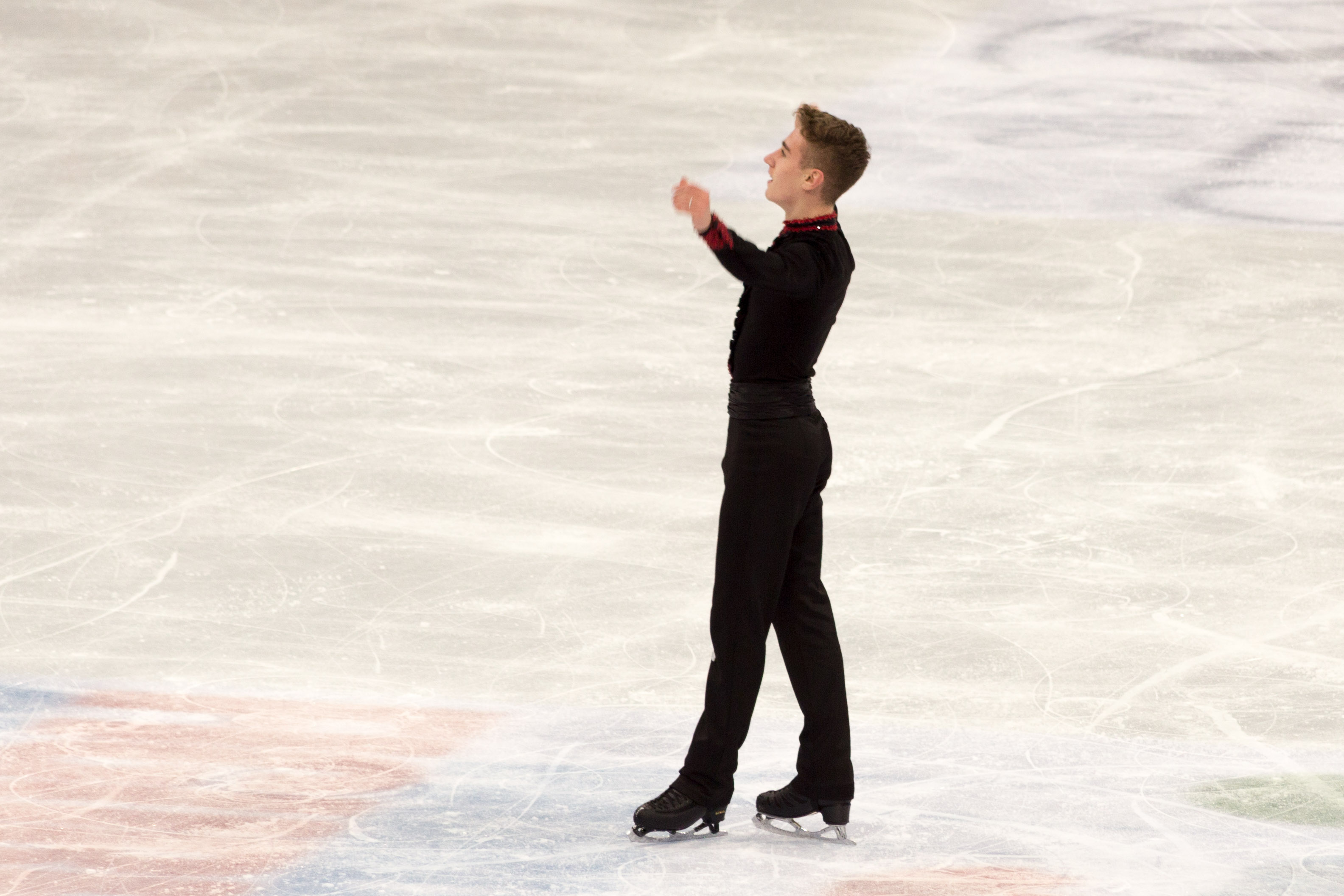 Matteo Rizzo (ITA) acknowledges the judging panel after his short program at the 2017 World Figure Skating Championships